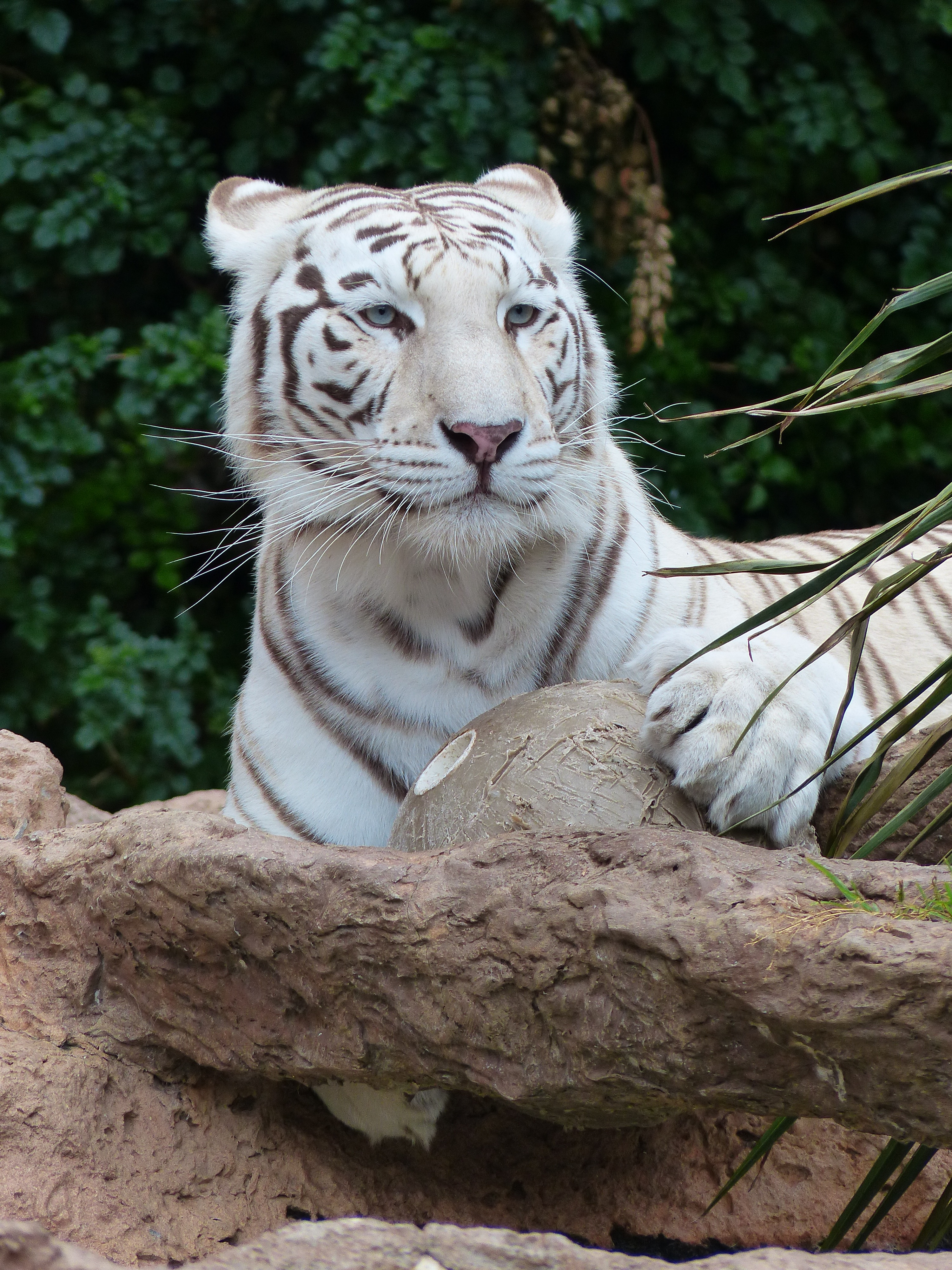 White Bengal tiger